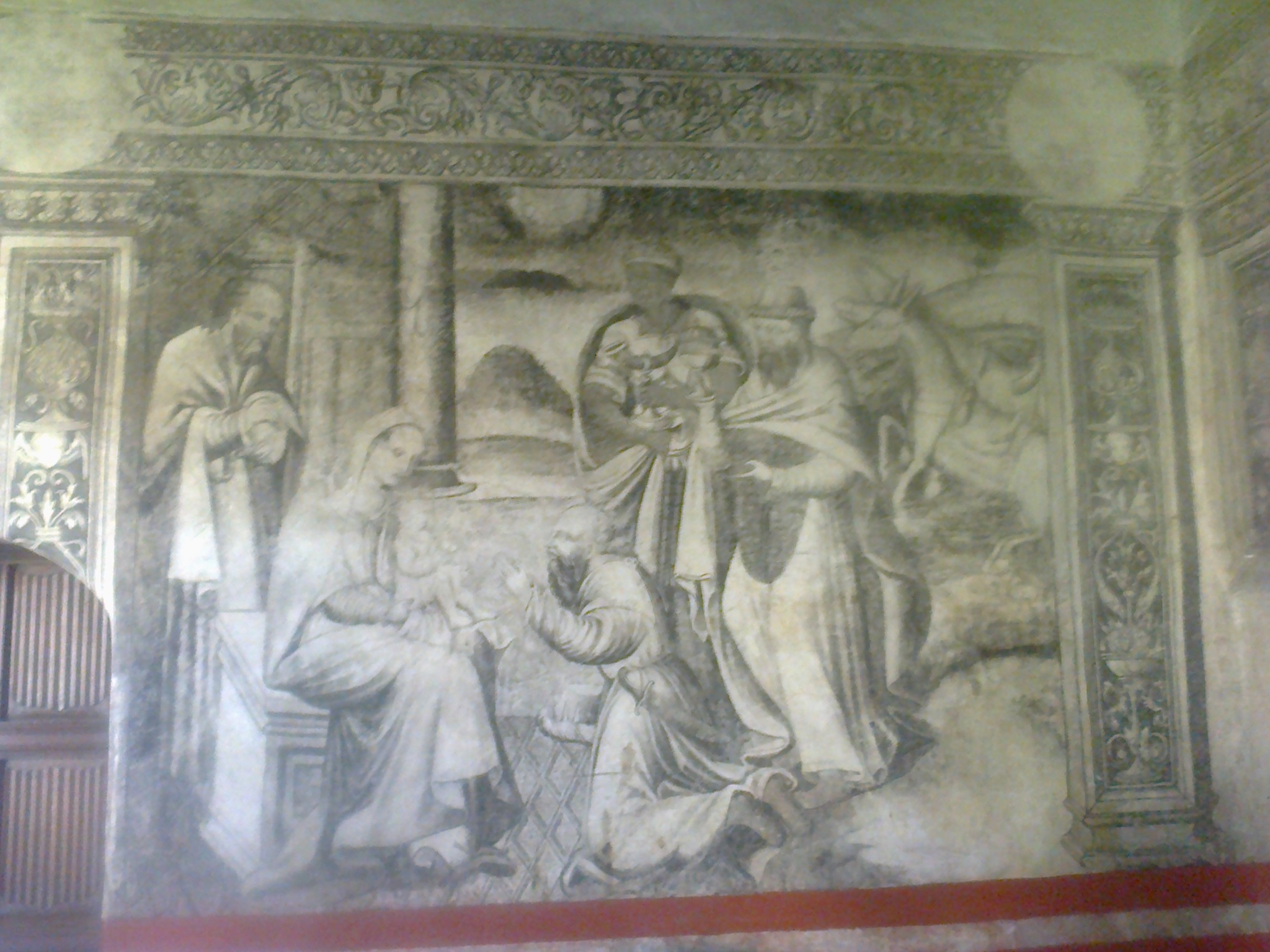 Three Wise men painting, Culhuacan's temple